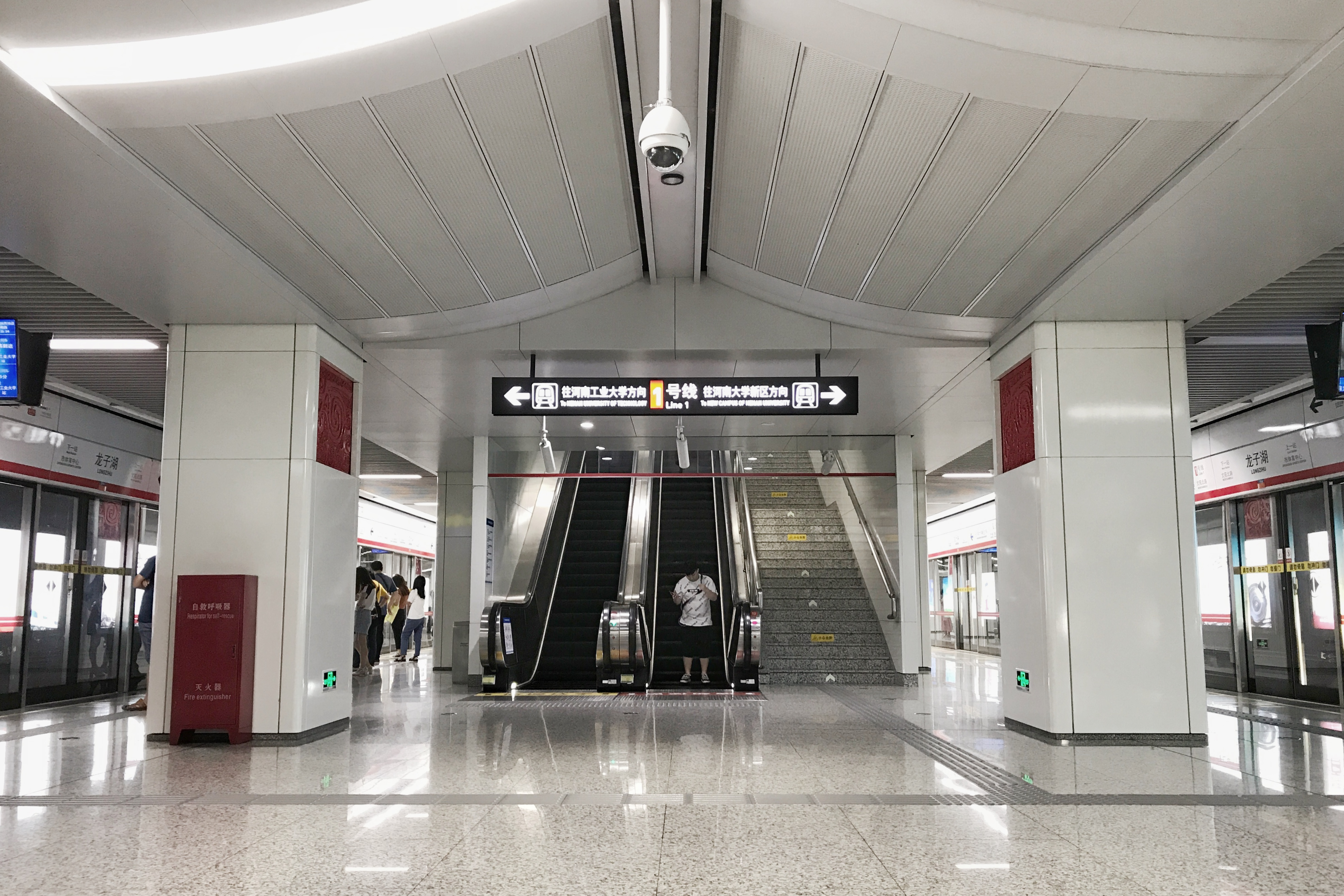 Platforms of Zhengzhou Metro Longzihu Station